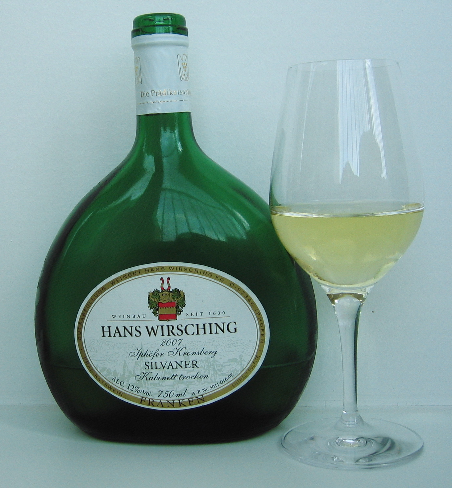 A Silvaner wine from Franconia, Germany. Weingut Hans Wirsching Iphöfer Kronsberg Silvaner Kabinett trocken 2007.